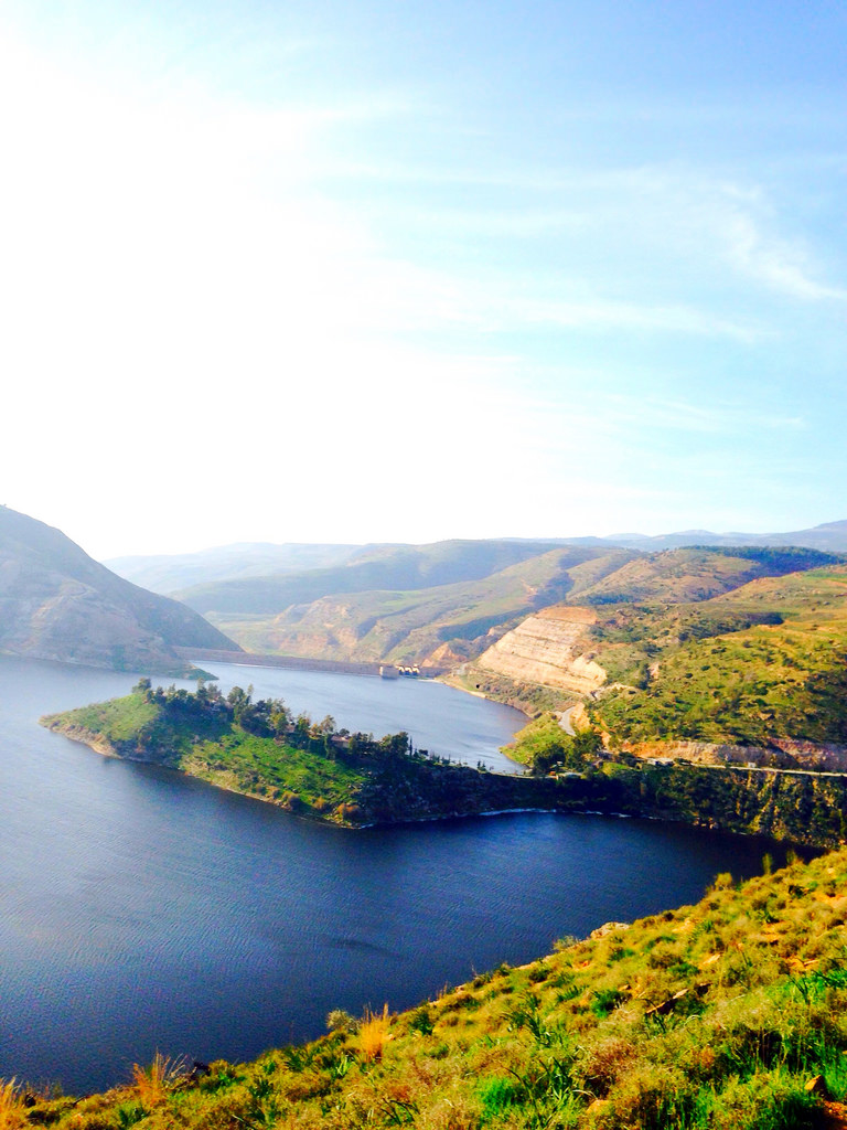 King Talal Dam is the largest dam in Jordan located in Jerash Governorate. Type of rocky rock dam. Its water is used for irrigation and electricity generation. It has a storage capacity of 75 million m3. It was established in 1977